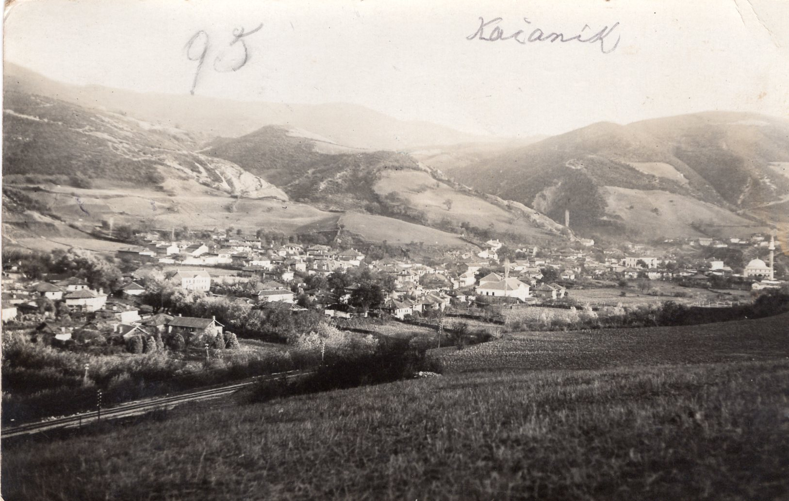 Postcard of Kačanik, 1920's This media file is produced by Wikipedian in Residence in Category:Wikipedian in Residence at DARM in 2016. }